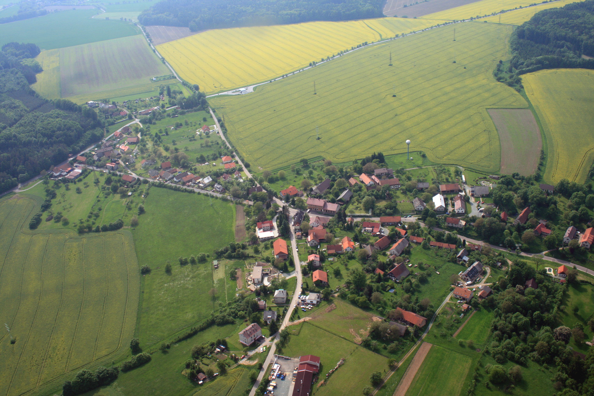 Village Spy officially part of town Nové Město nad Metují from air, eastern Bohemia, Czech Republic